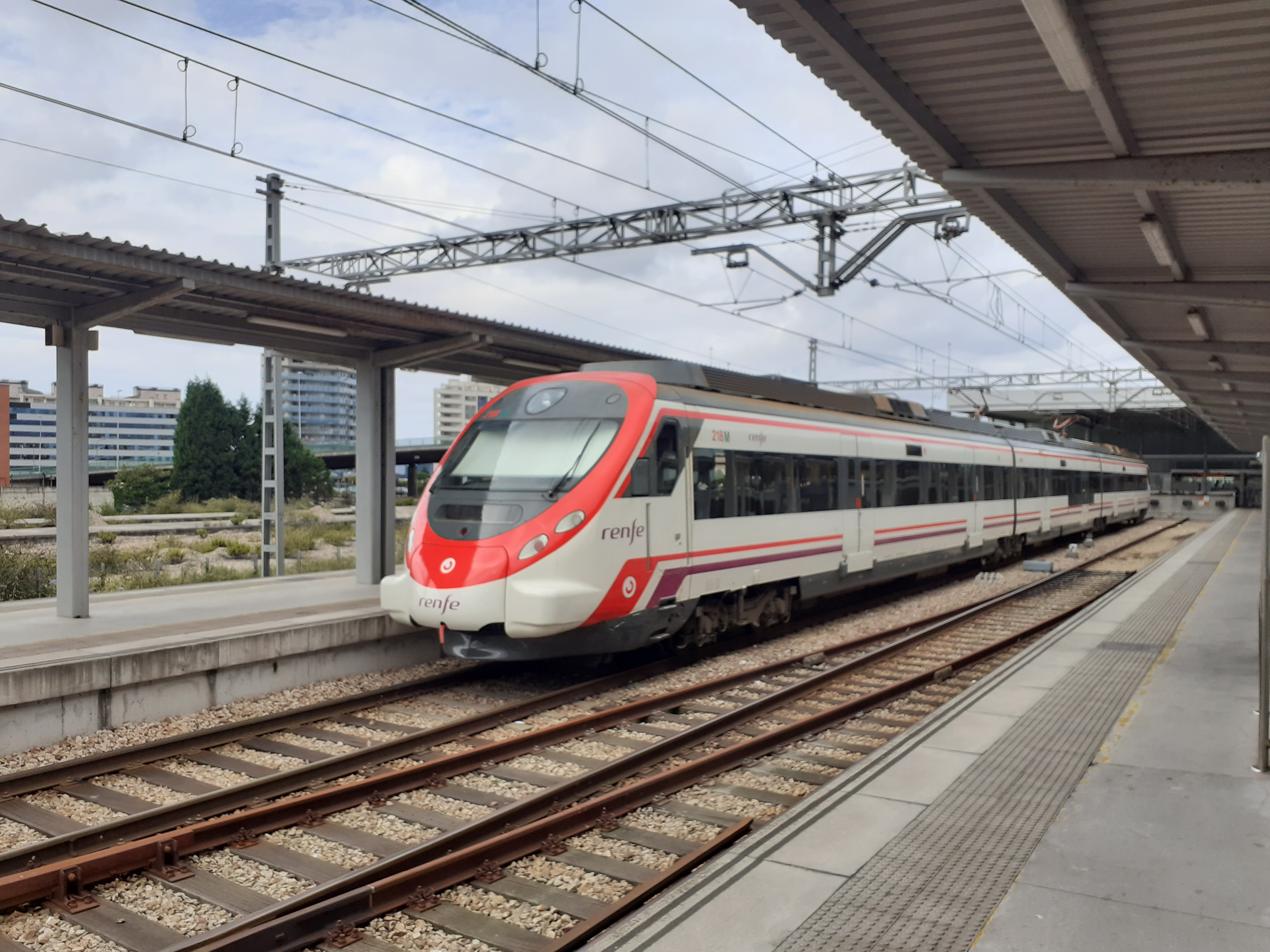 Gijón train station platforms